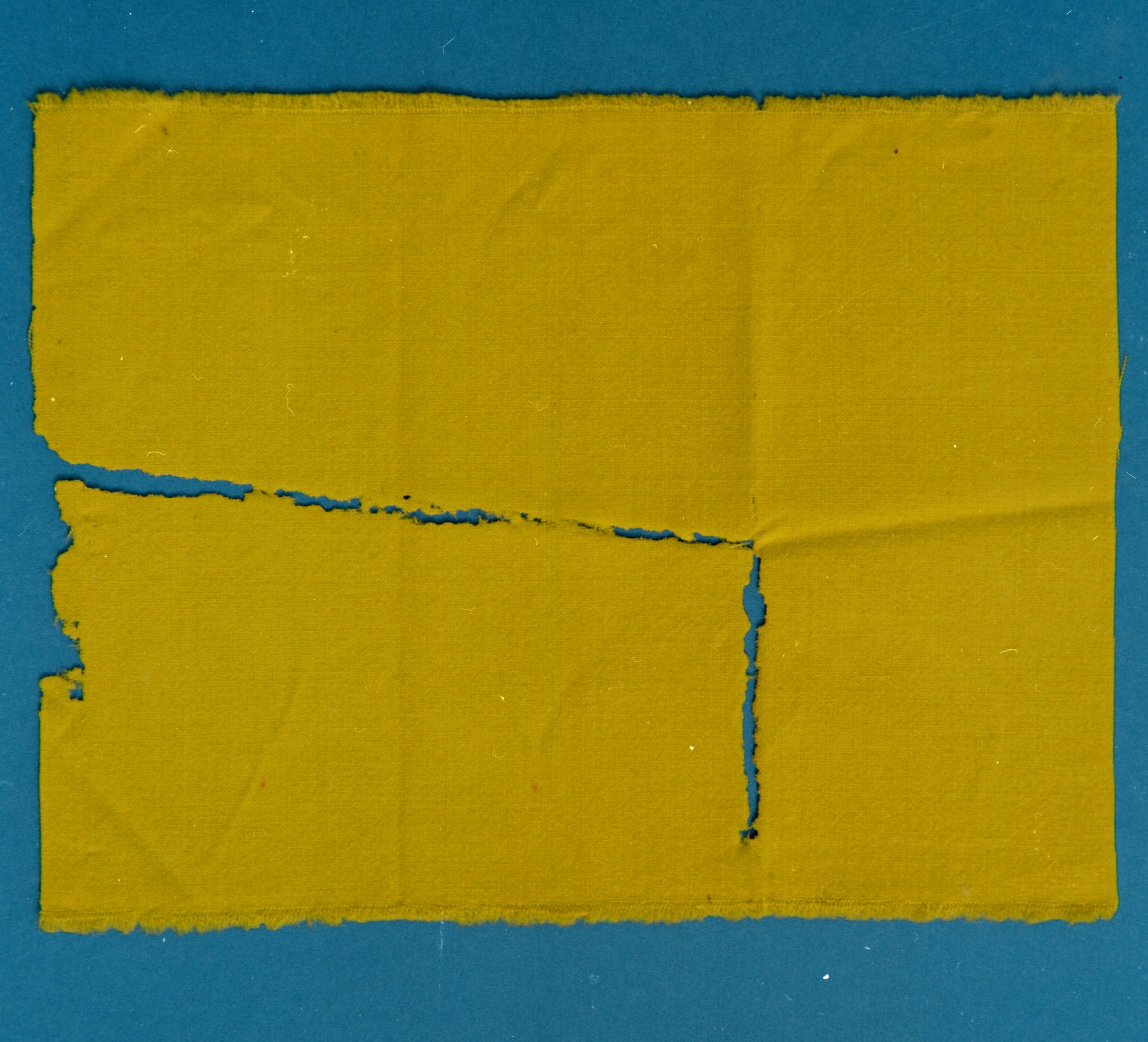 Damage to cloth by furniture carpet beetle Anthrenus flavipes, lab setting, USA